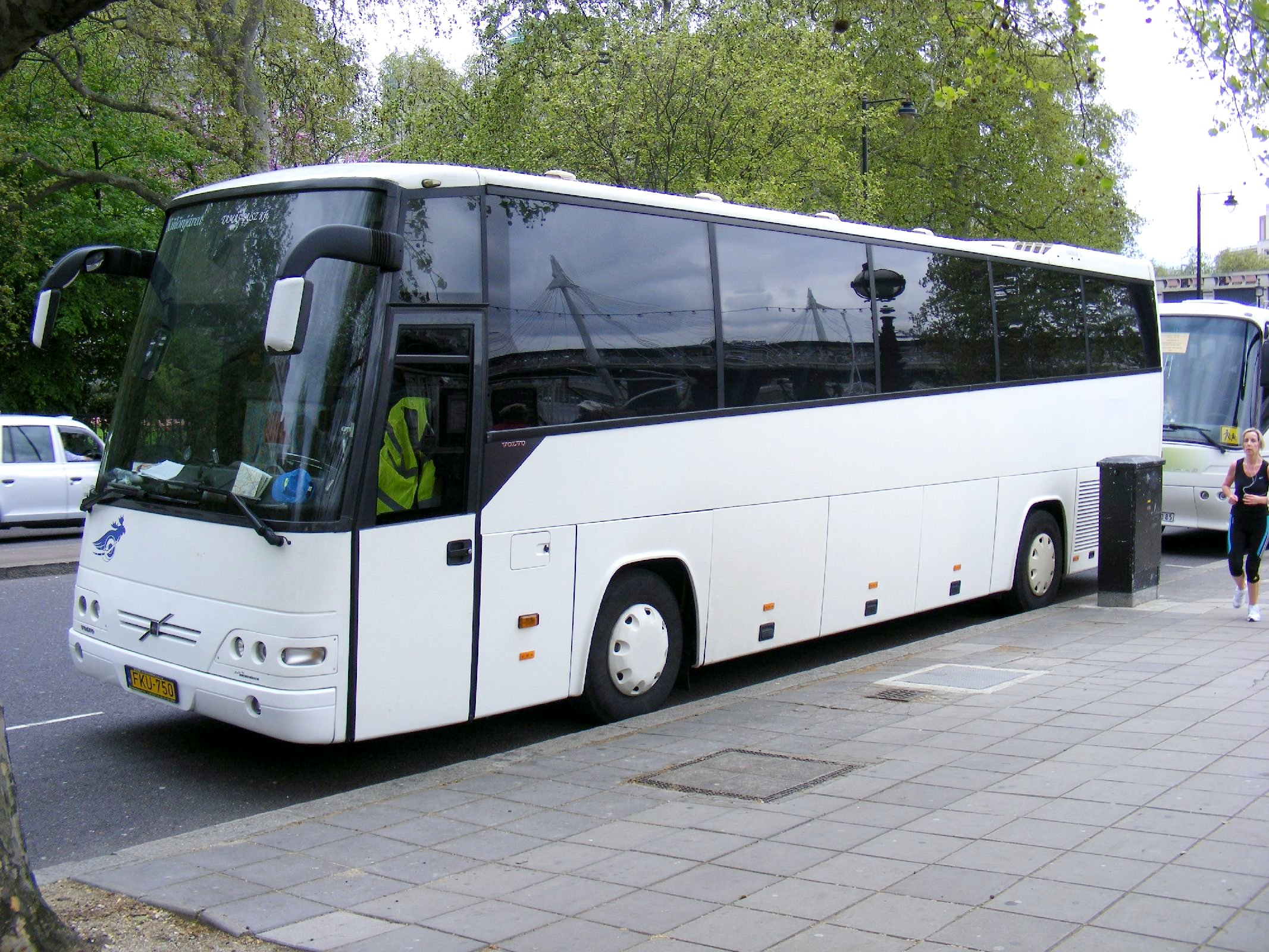 Volvo B12-600 - Drögmöller Euro Comet E 330 H Probably acquired second hand from Germany These were the last vehicles to have the cinema seating, still produced after Volvo took over production in 1994. This is a later 1996 onwards model As is usually the case with Hungarian coaches, there is precious little with which to identify the operator. This one is operated by TAMÁS-BUSZ Kereskedelmi és Szolgáltató Kft. 9200 Mosonmagyaróvár, Hungary, quite close to the Austrian border.